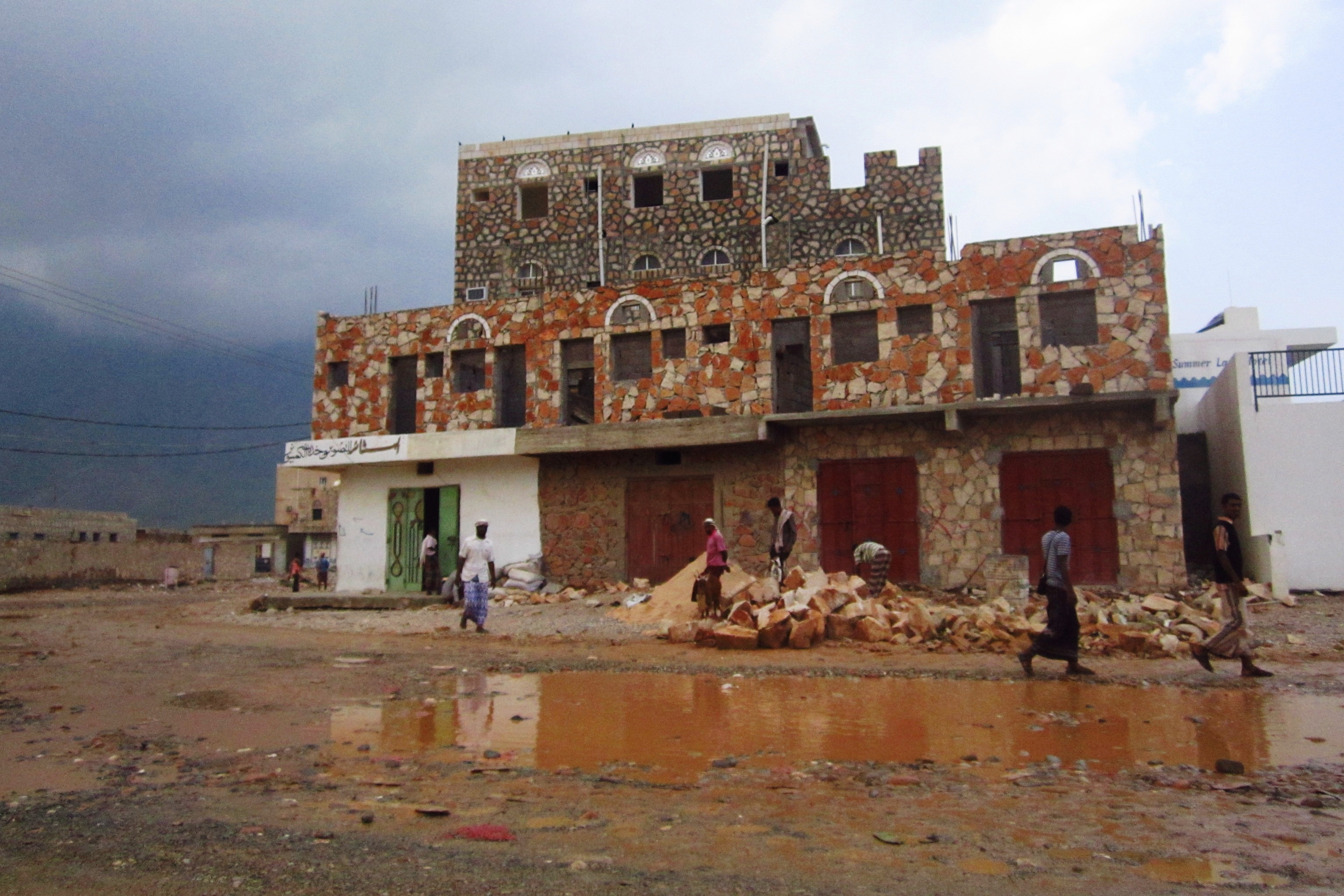 rain puddle island hotel yemen socotra soqotra hadiboh